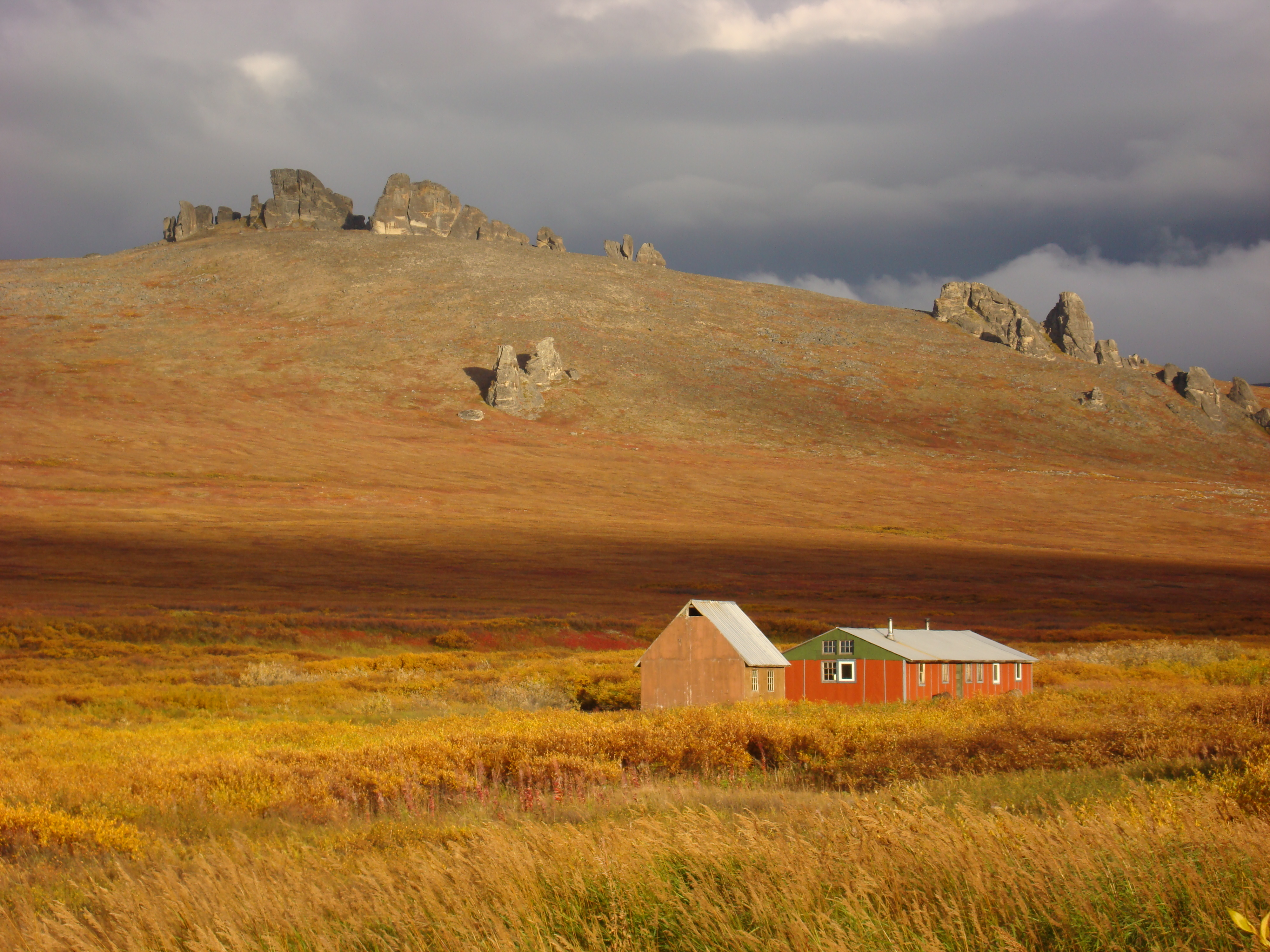 Bering Land Bridge National Preserve, Alaska. View of the bunkhouse at Serpentine Hot Springs in the rosy light of sunset in an autumn landscape.